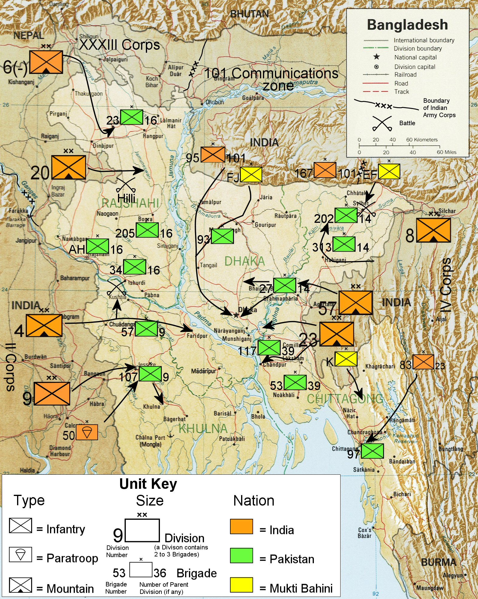 This map contains my estimates of the units involved in the Bangladesh liberation war. If you know better please contact user:Mike Young on the English Wikipedia, and I will correct the Paintshop Pro image I built this from. Background taken from "Bangladesh LOC 1996 map.jpg"